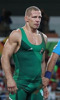 Wrestling at the 2016 Summer Olympics – Men's Greco-Roman 75 kg